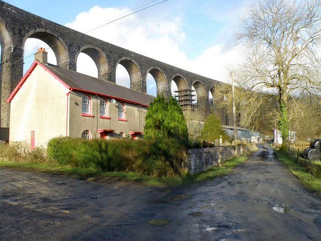 Cynghordy Viaduct There is surprisingly little on the internet about this viaduct across the Bran Valley. A fellow geographer has written that it was built in 1867 and has 18 arches.